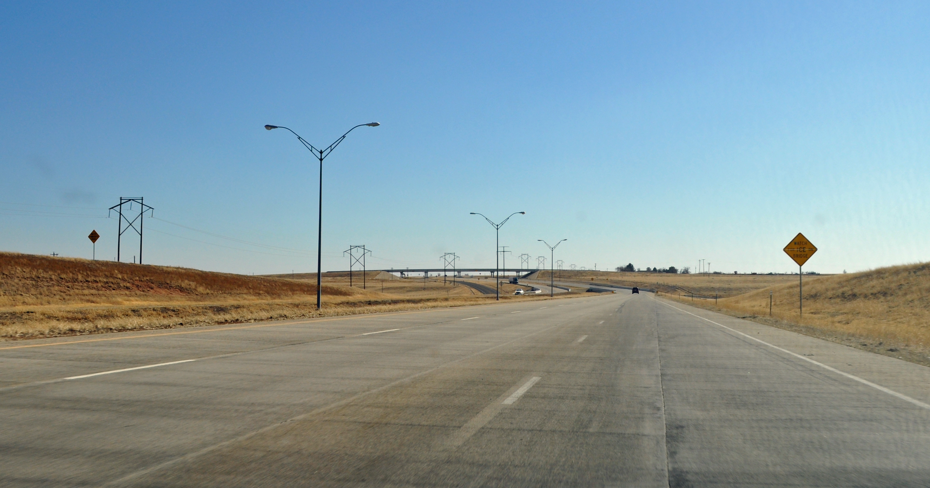 Interstate 27 southbound at exit 74 (Texas state highway 86) in Tulia, Texas.